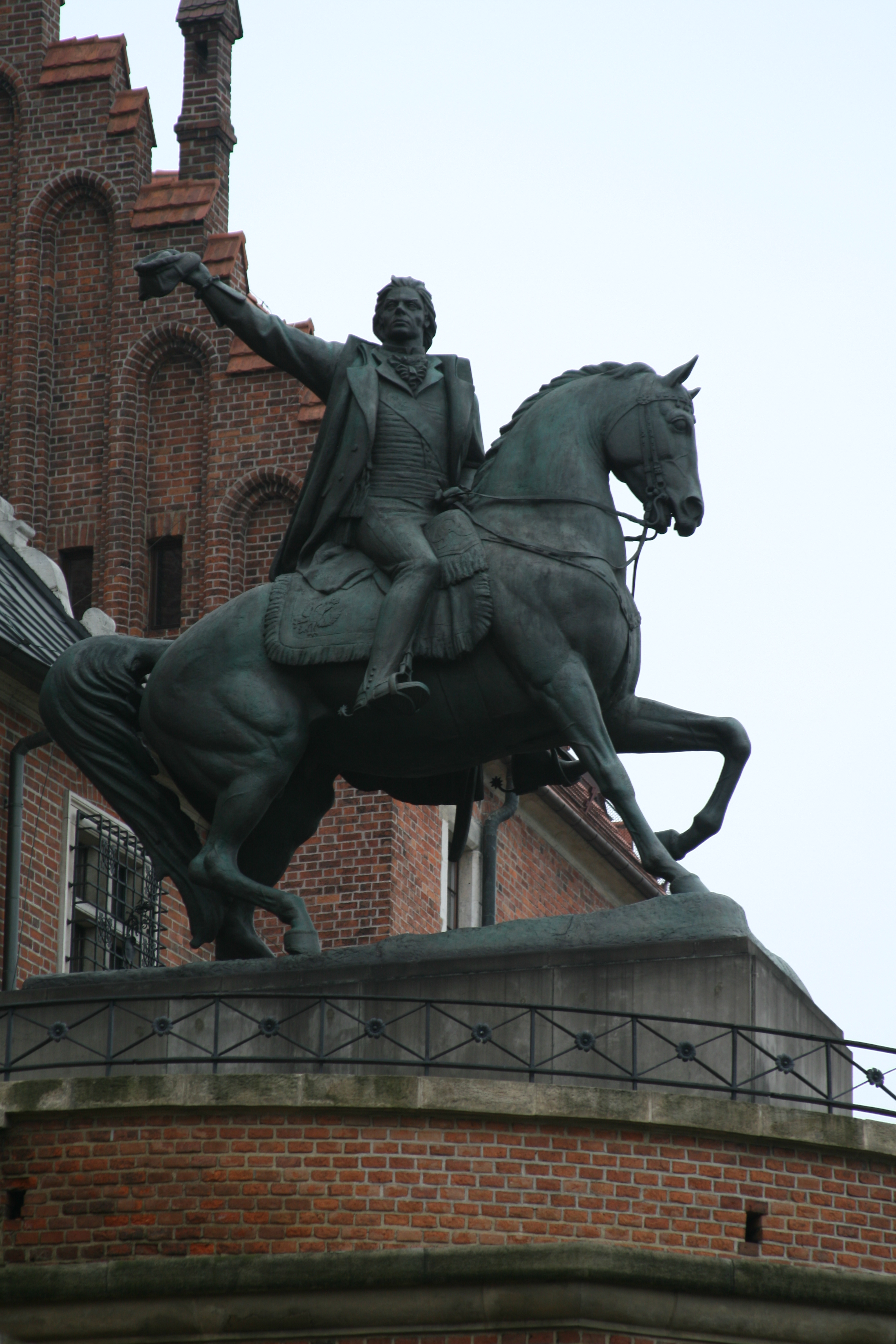 Tadeusz Kościuszko's monument. In front of Wawel.